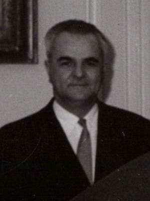 National hero of Yugoslavia